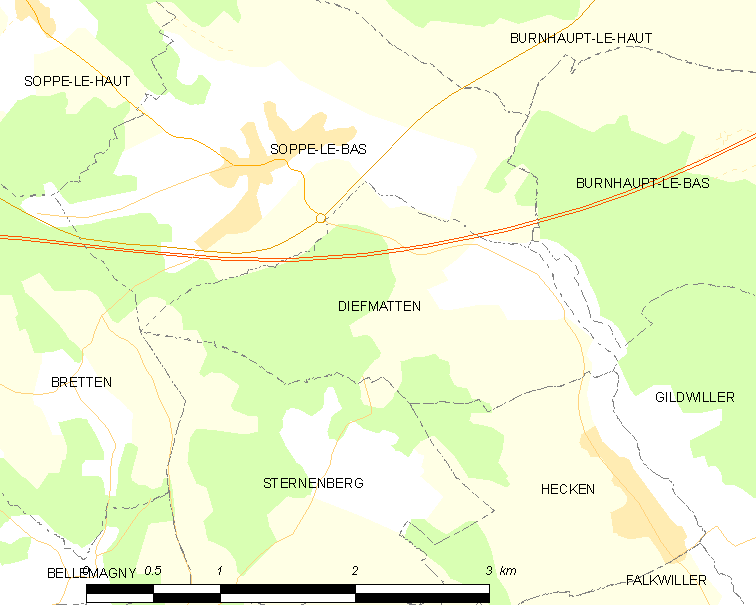 Map of French municipality